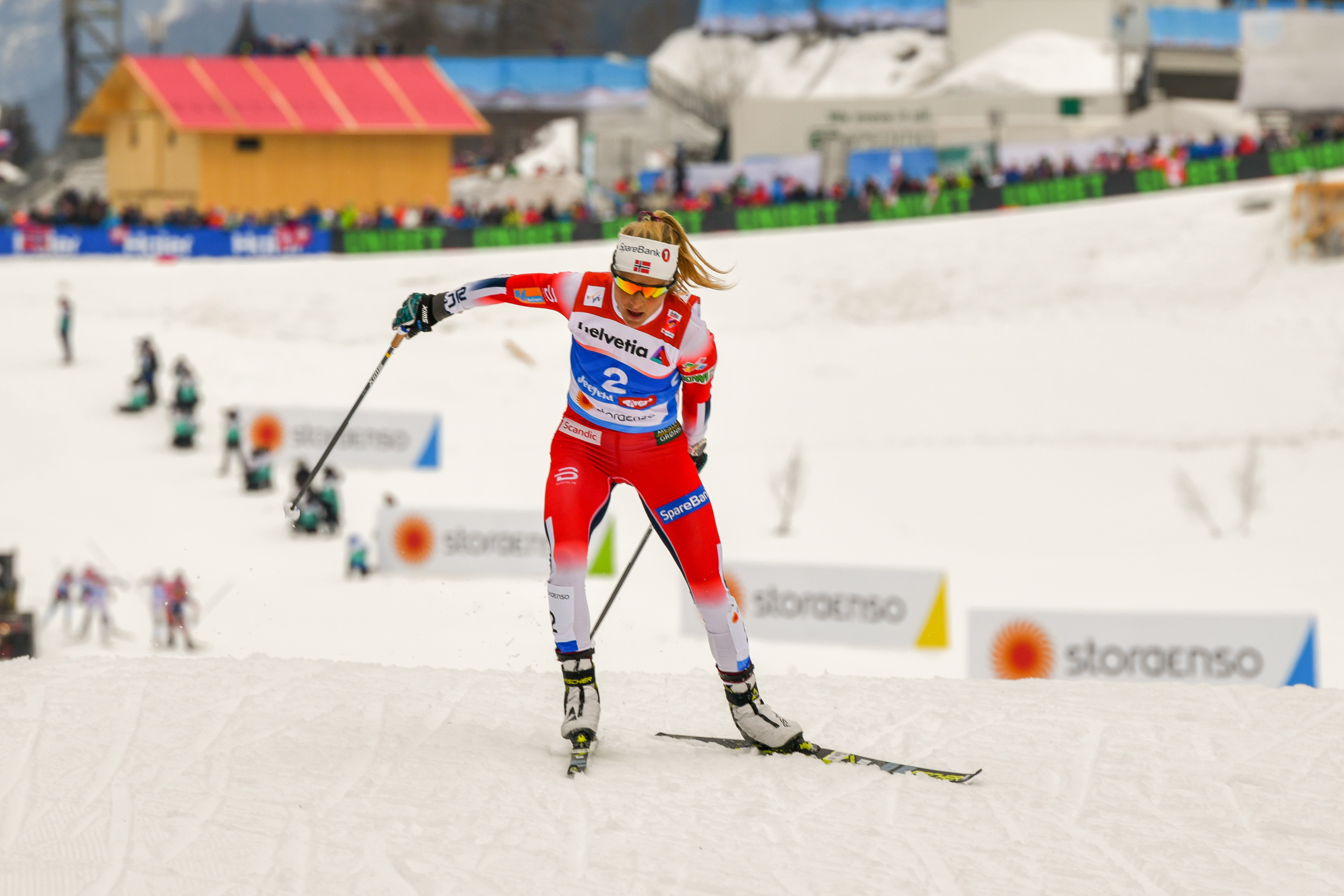 FIS Nordic Wolrd Ski Championships Seefeld 2019 - Ladies 30km Mass Start Free. Picture shows Therese Johaug (NOR).